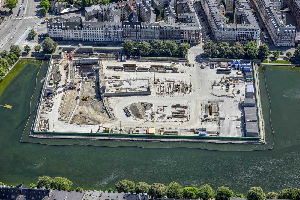 Air photo of the City Circle Line being built, part of the Copenhagen Metro. I got the following permission to use these images from kjeld madsen on 2014-10-07: Dragør Luftfoto ApS frigiver hermed billederne i galleriet under licensen Creative Commons Attribution ShareAlike 3.0 license.